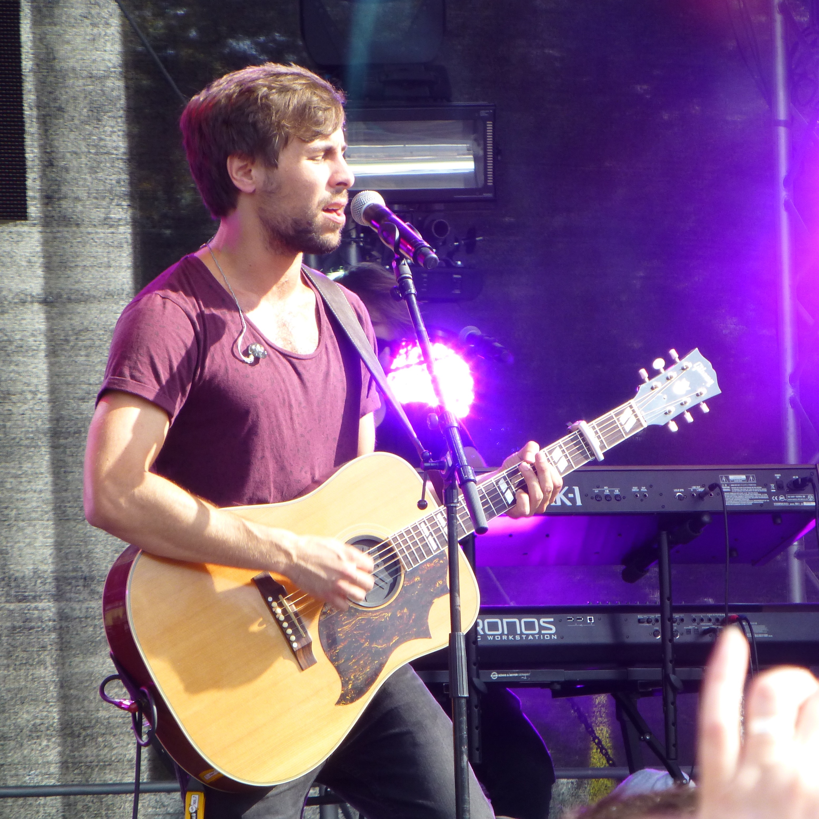 Max Giesinger on the Radio Salü stage at the Saarspektakel 2014 in Saarbrücken